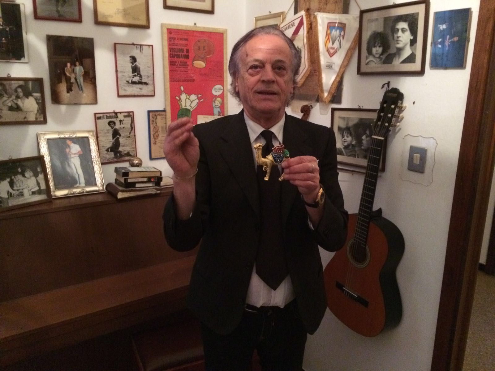 Photo of Orlando Portento in 2016